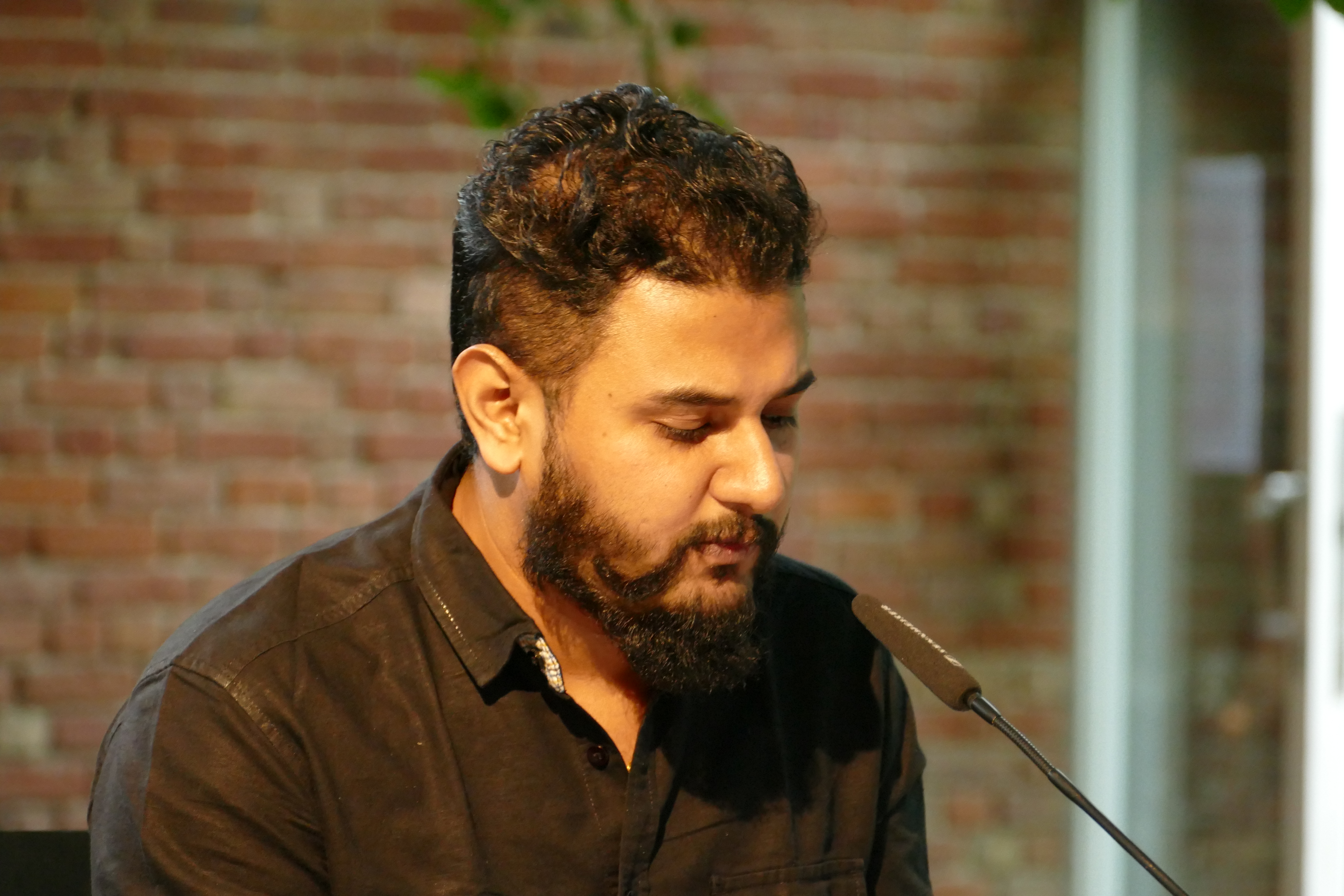 Soonet Mondal at the Poesiefestival Berlin 2018